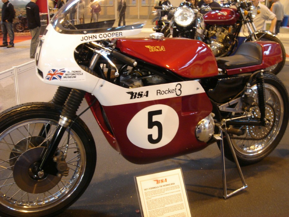 1971 BSA at NEC Motorcycle Show